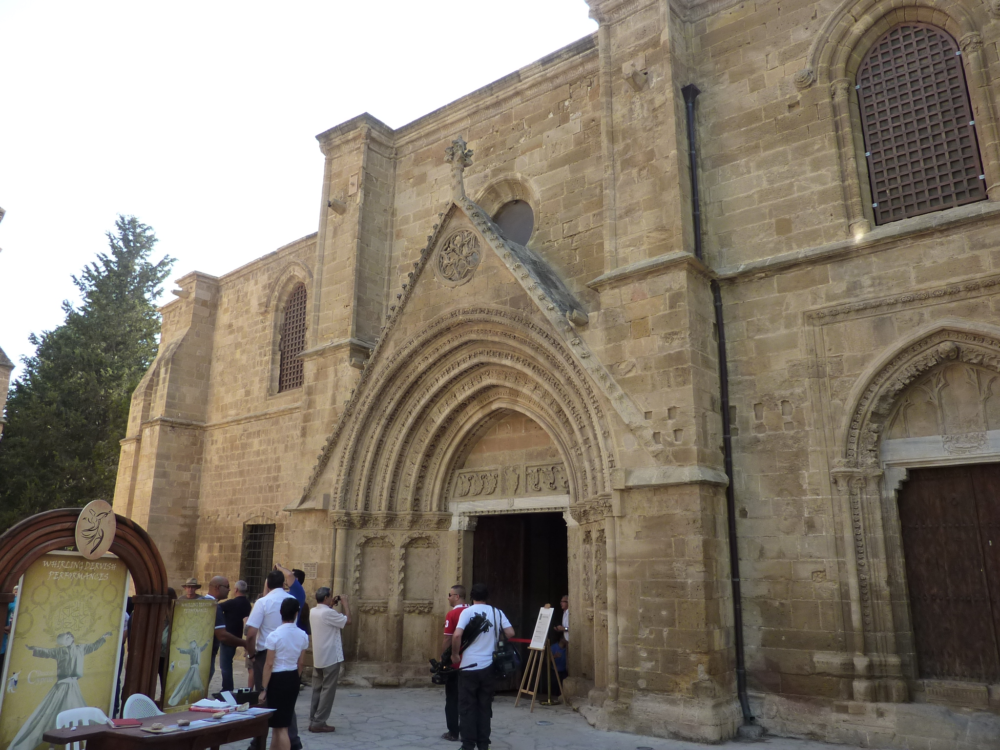 Bedestan (St Nicholas of the English Church), Nicosia